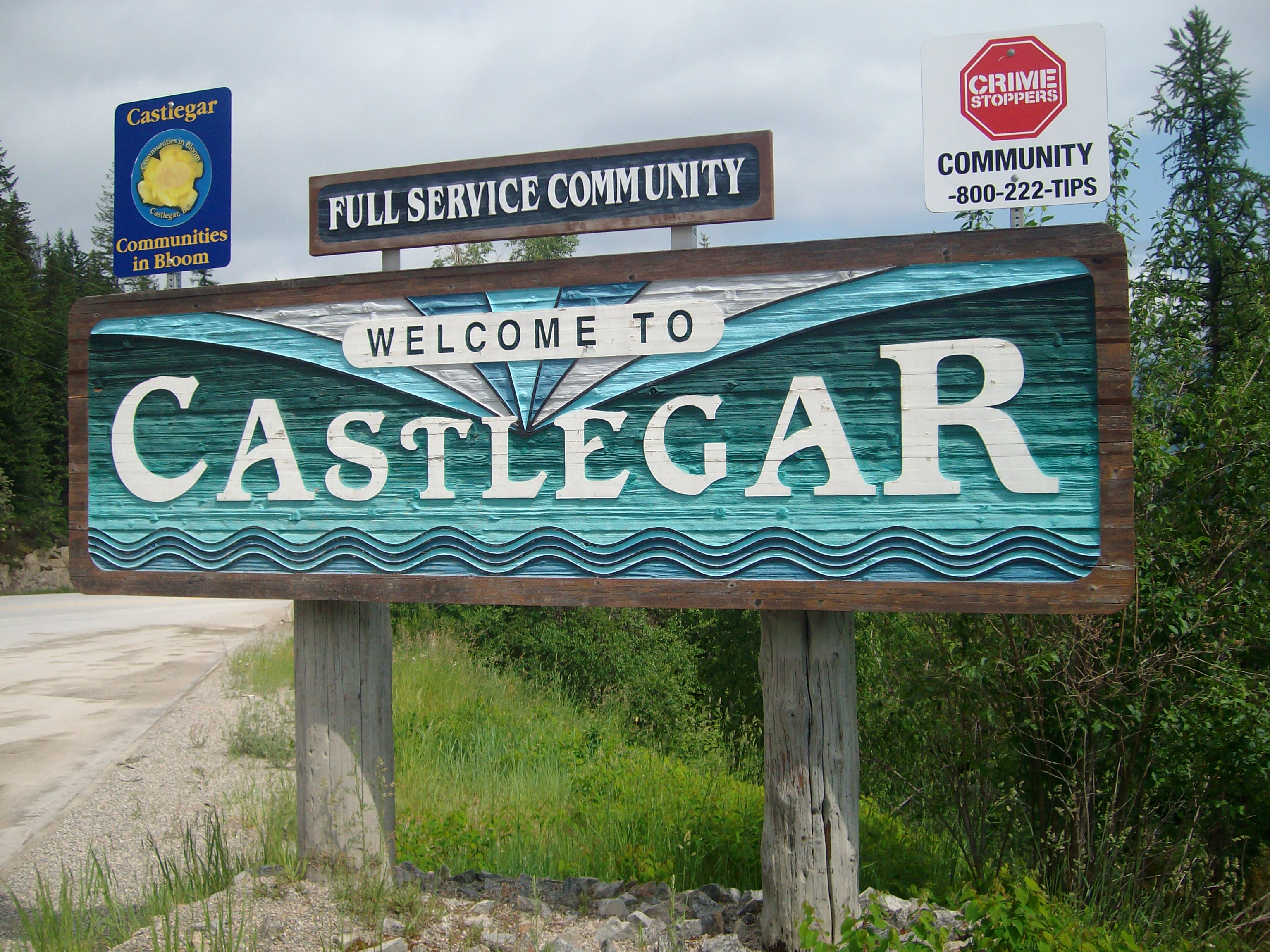 Castlegar's welcome sign